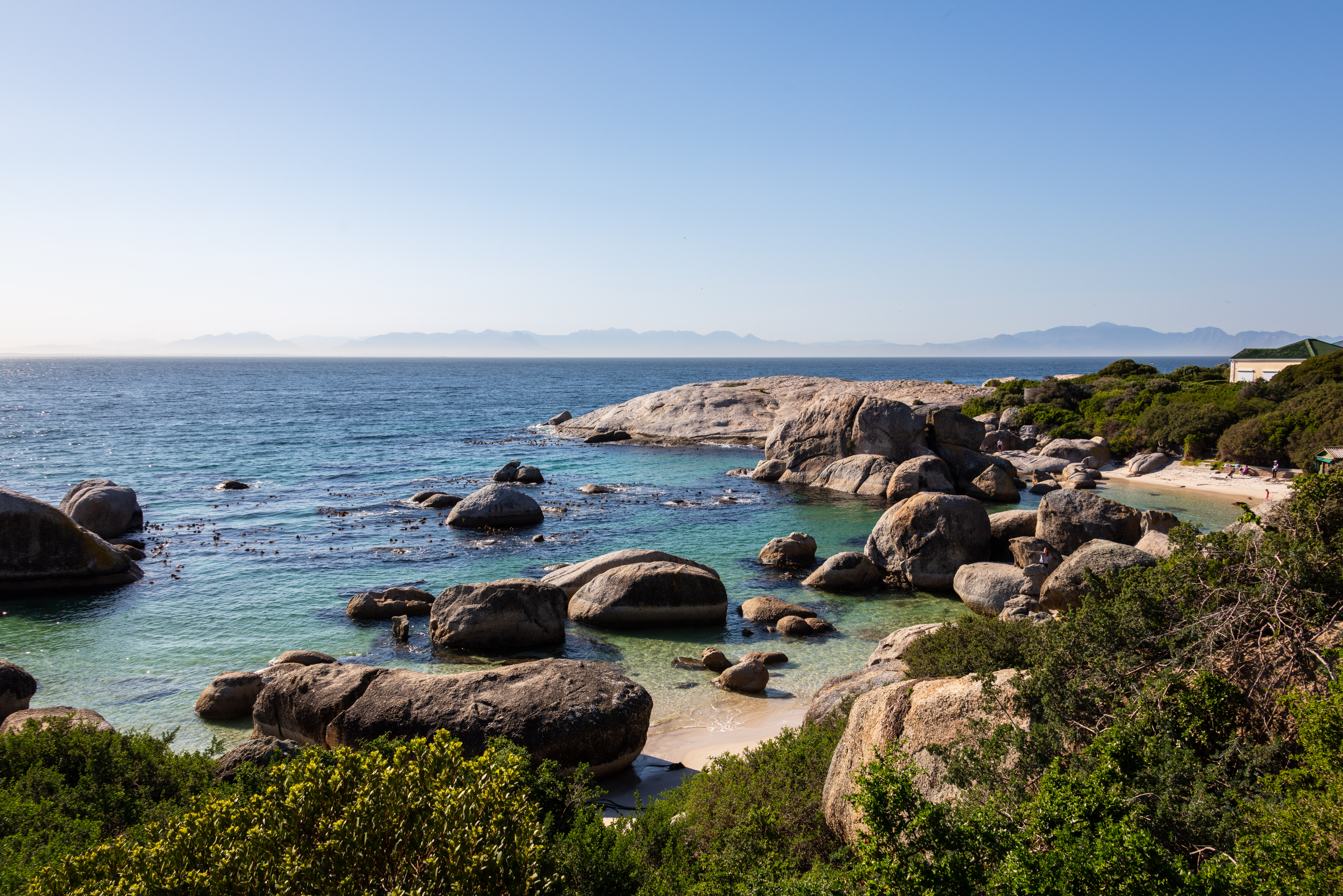 Boulders Beach, Simon's Town, South Africa